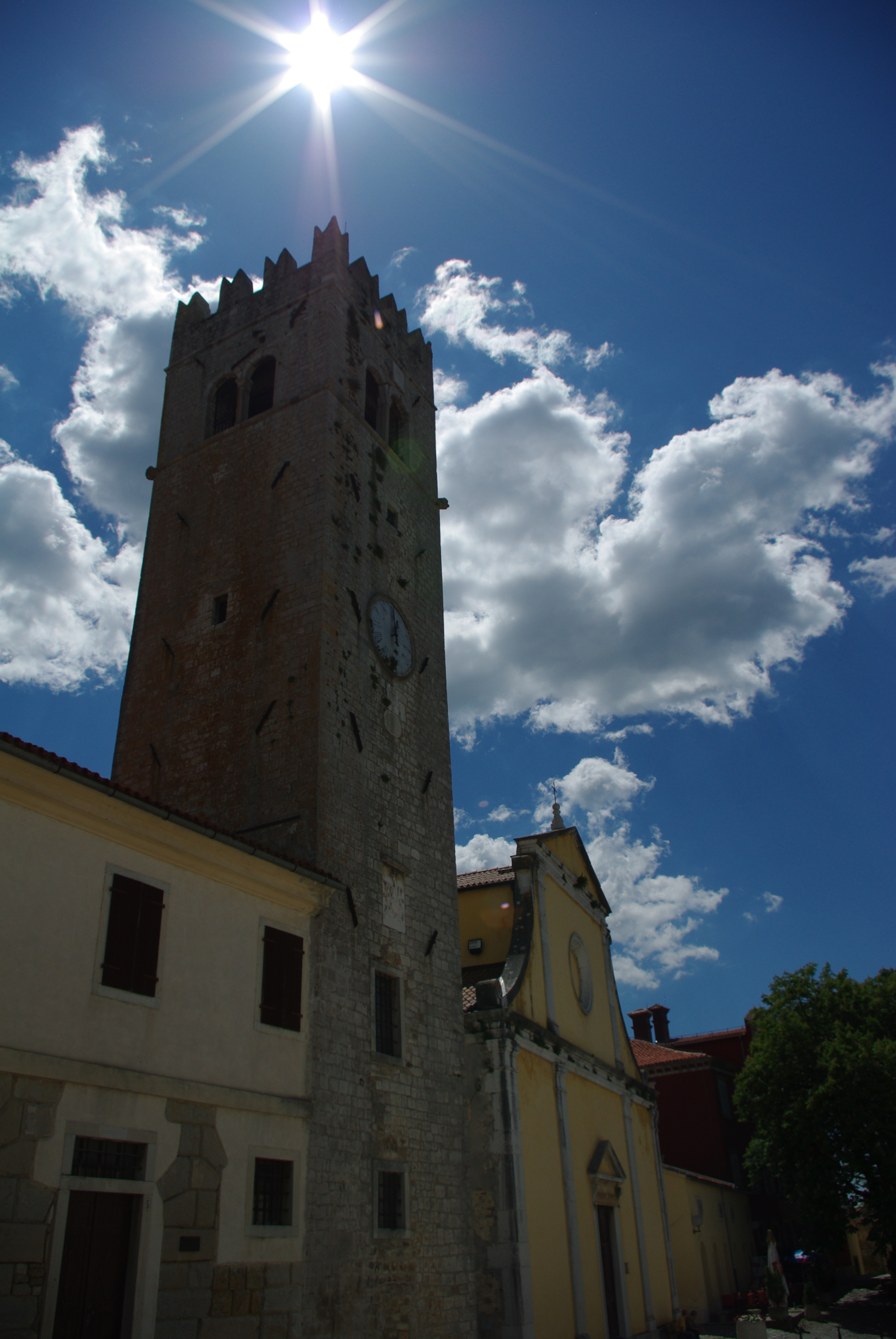 Church in Motovun, Istria, Croatia.